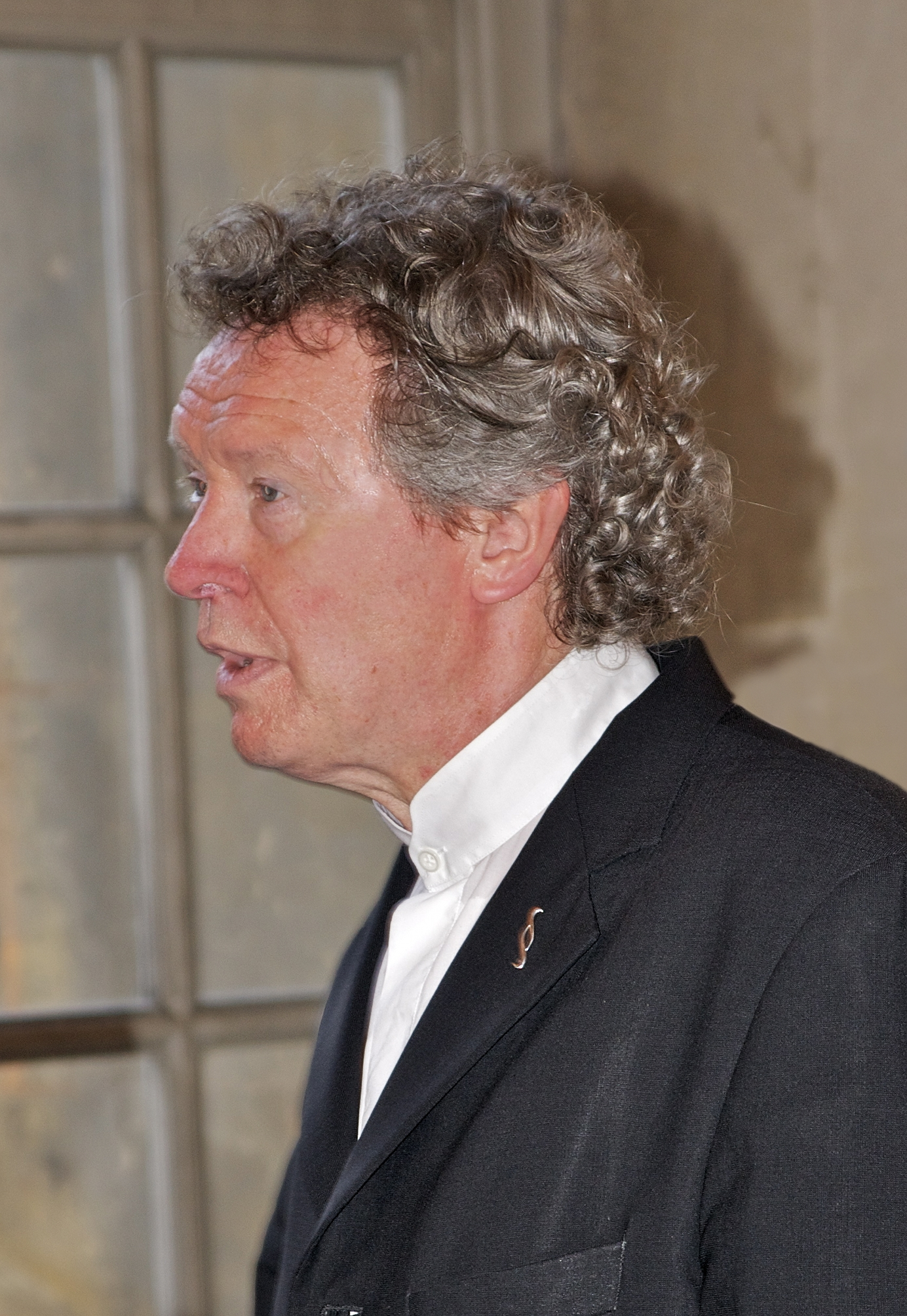 Harry Christophers, english conductor and choir master, during a concert at Château de Versailles, 25th June 2012.